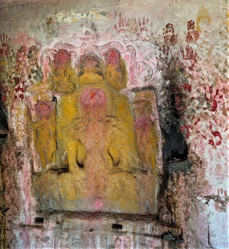 I click this image while I visited this place. Rockcut sculptures of Goddess Ambika(Yakshini of Tirthankar Neminath)